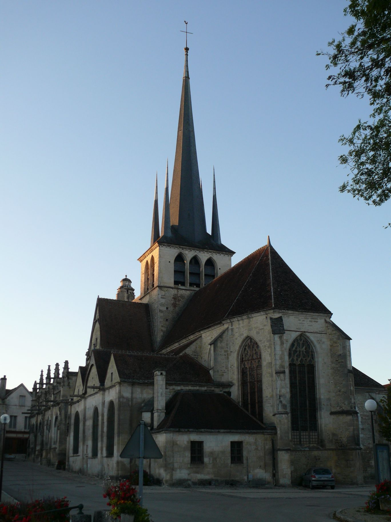 Saint-Pierre-ès-Liens' church of Ricey-Bas, at Les Riceys (Aube, Champagne-Ardenne, France).